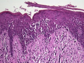 Histopathology of Pautrier microabscesses in cutaneous T cell lymphoma: Lymphocytes with surrounding haloes are present in the epidermis as small clusters. There are also single lymphocyte cells, and minimal accompanying spongiosis.